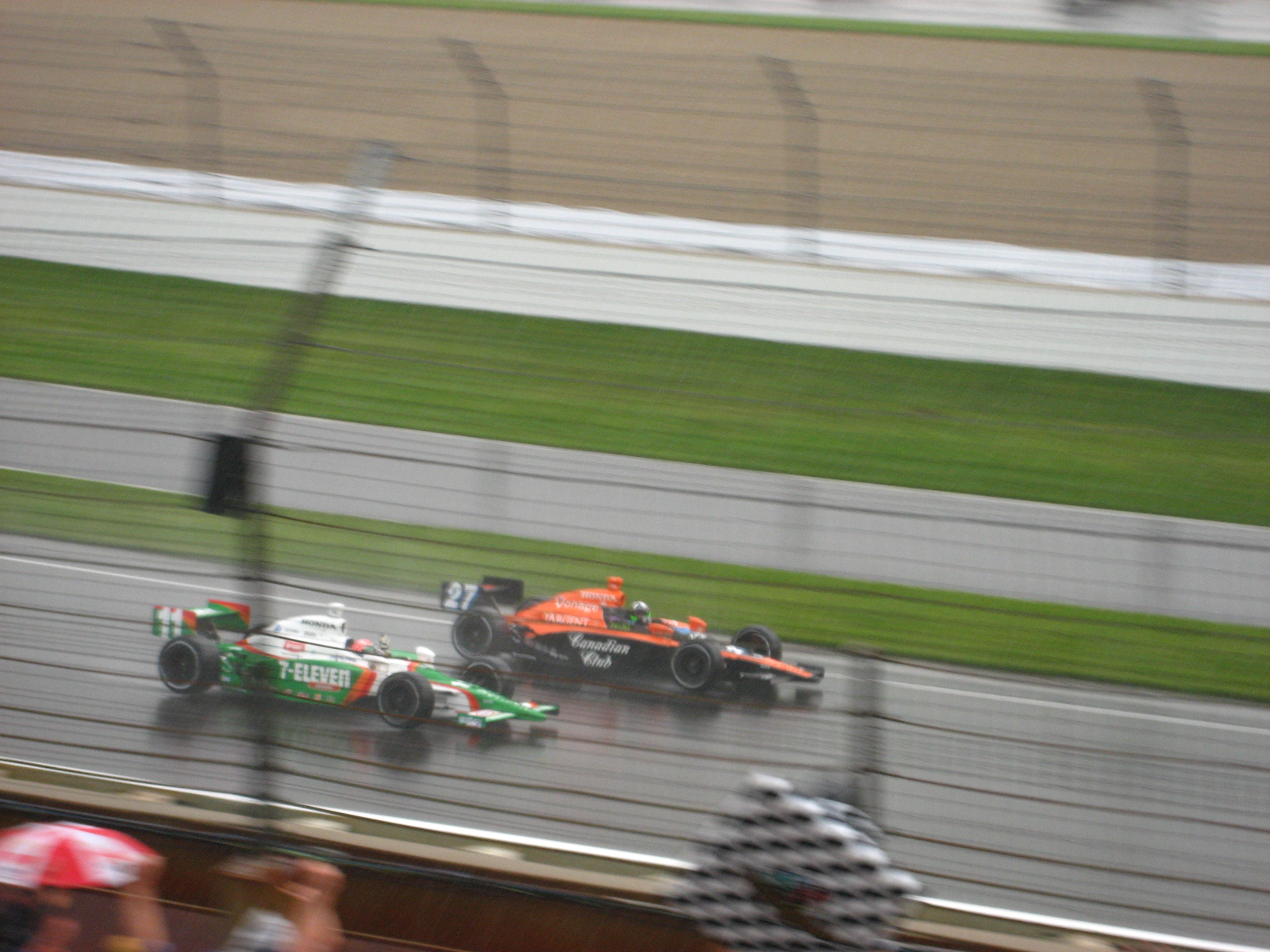 Race-winner Dario Franchitti celebrates with Tony Kanaan at the 2007 Indianapolis 500